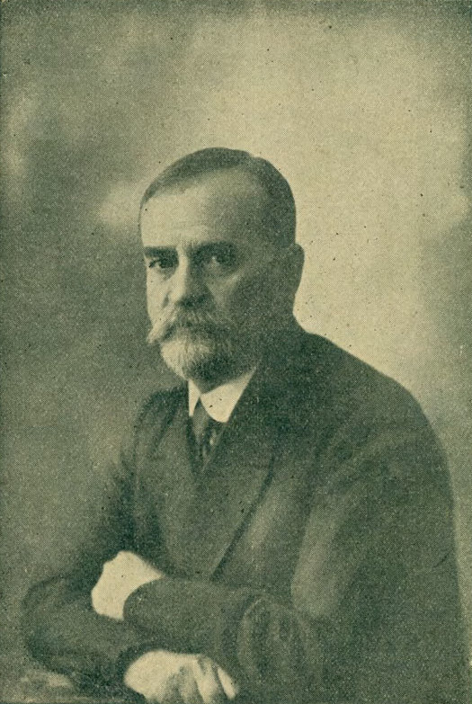 Ivan Ivanovich Shirokogorov, a photo of 1926 from the Journal of Theoretical and Practical Medicine of Azerbaijani State University